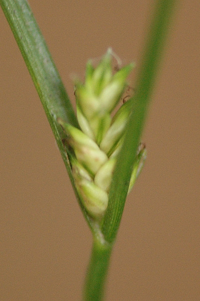 Carex remota from Commanster, Belgian High Ardennes .